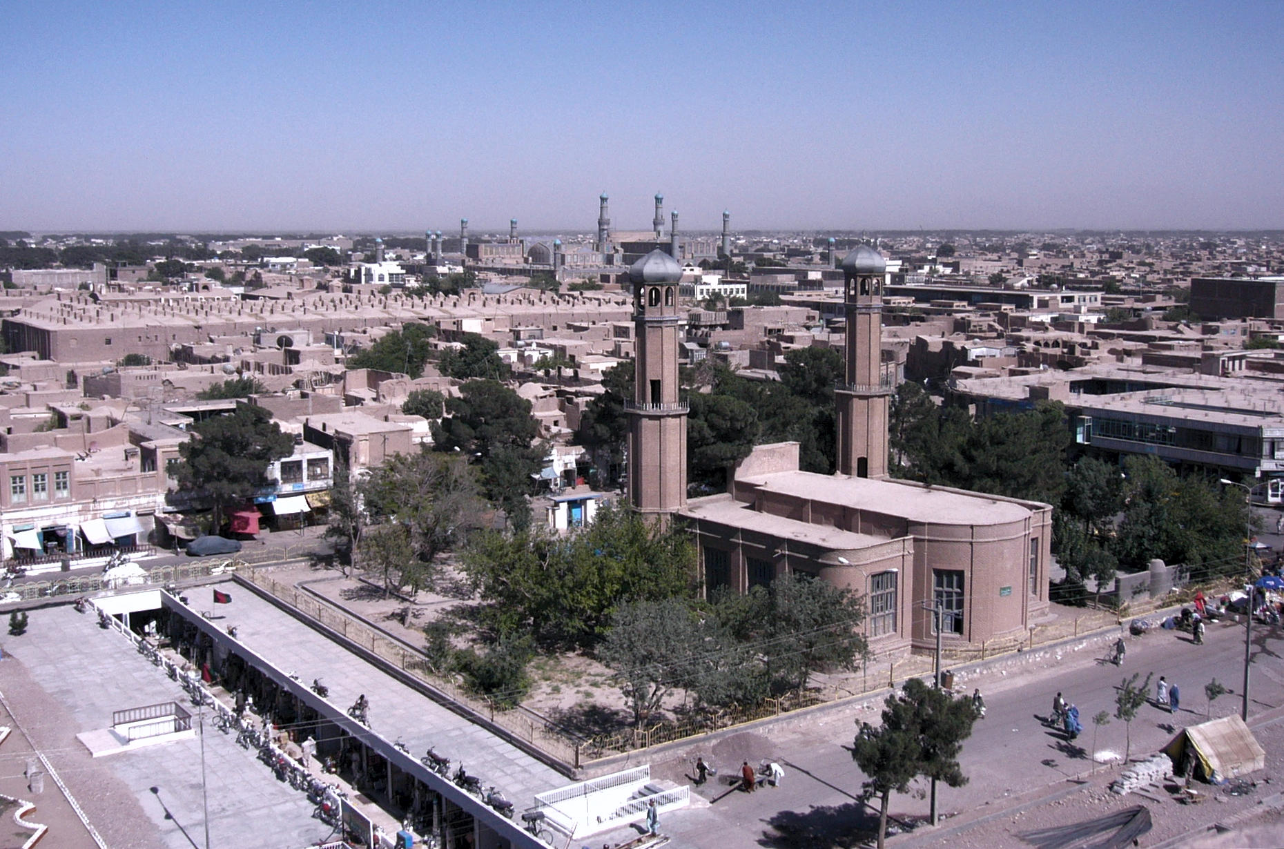 View from citadel to Friday Mosque in Herat, Afghanistan